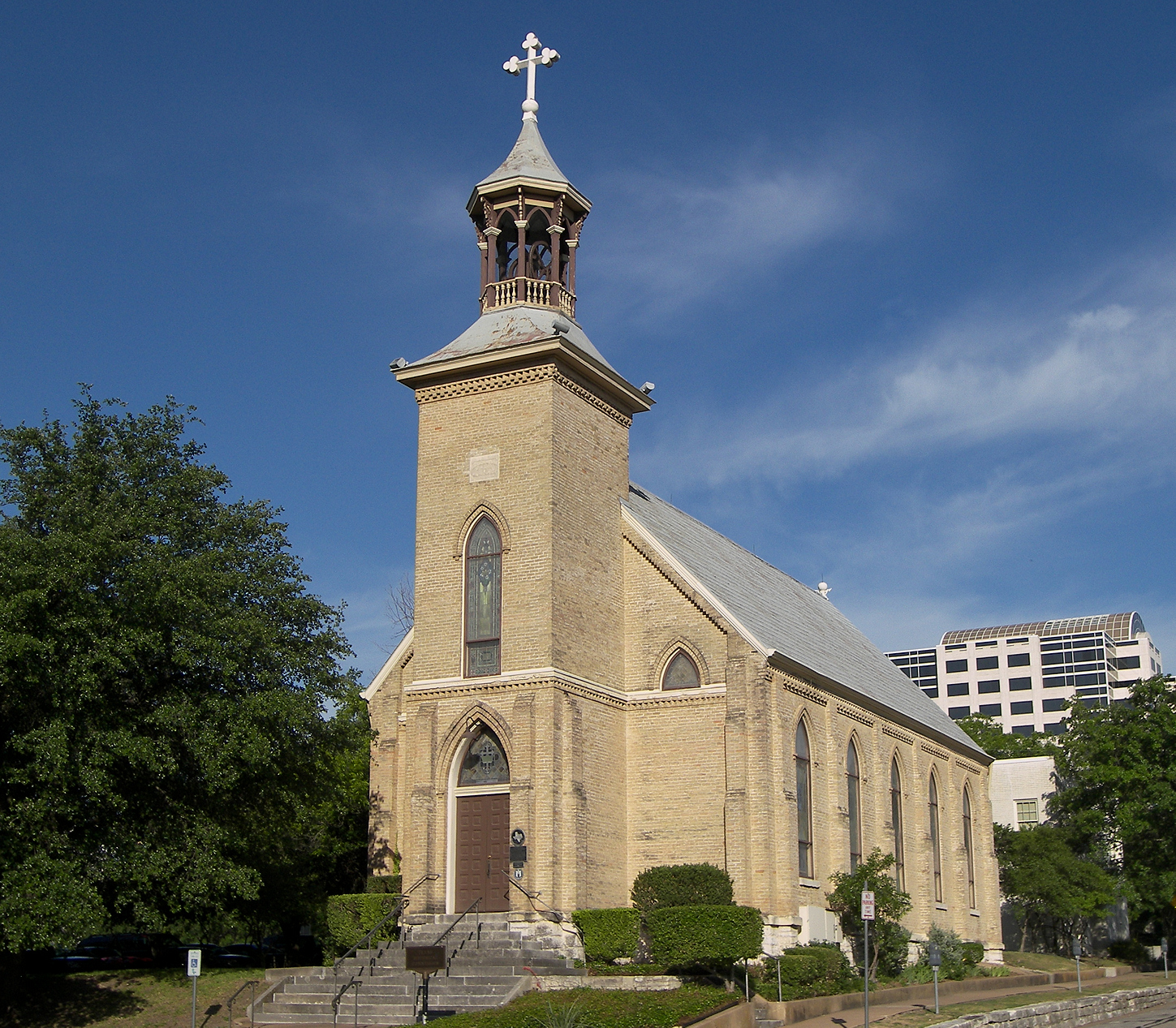 Gethsemane Lutheran Church located at 1510 Congress Ave, Austin, Texas, United States. The church was added to the National Register of Historic Places on August 25, 1970. As of writing it is an office of the Texas Historical Commission.